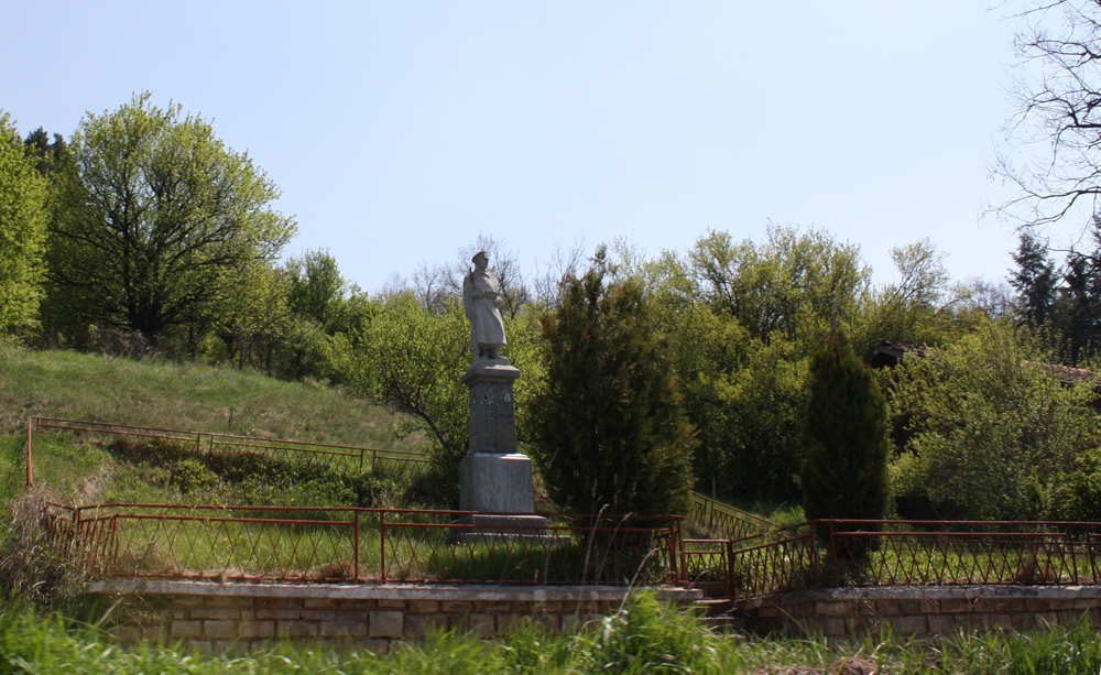 War memorial in Buchin Prohod, Bulgaria